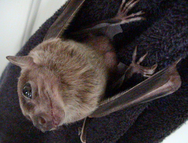 Photographer: User:Dawson